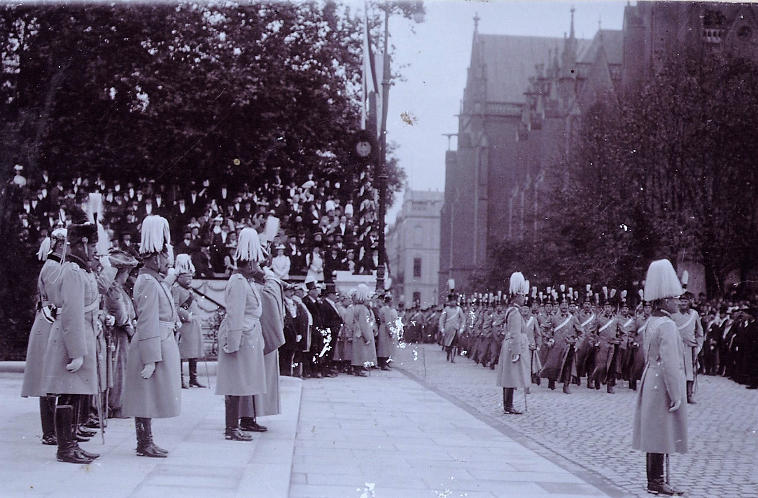 "Vorbeimarsch der Königshusaren / am enthüllten Denkmal Kaiser Wilhelms I; ihres einstigen Chefs / Bonn / 1906", Schlözer-Stiftung Bilder L 228 (1) , Niedersächsische Staats- und Universitätsbibliothek Göttingen